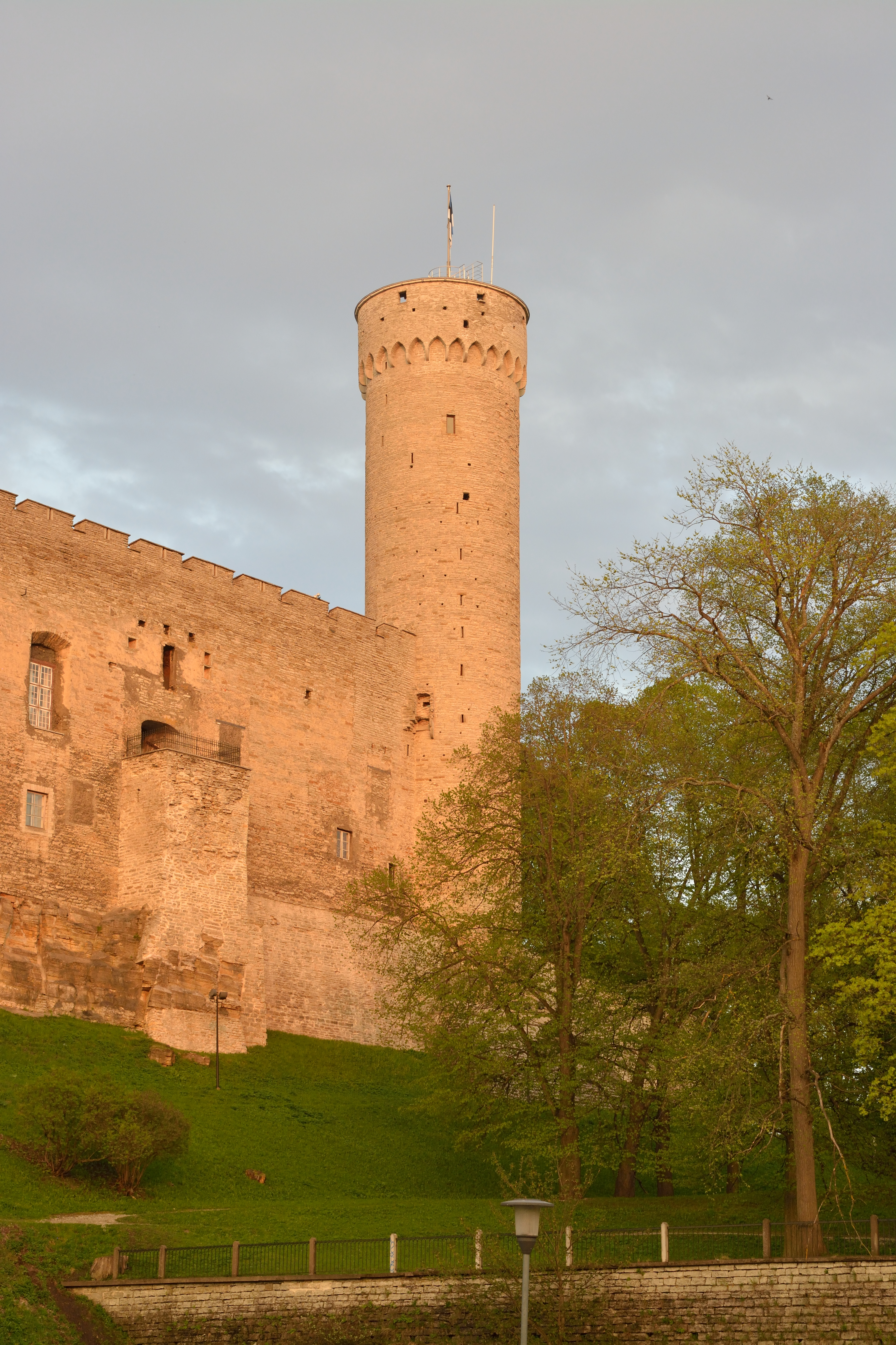 Tall Hermann Watchtower. The first part was built in 1360–1370. It was rebuilt (new height 45,6 m) in the 16th century.